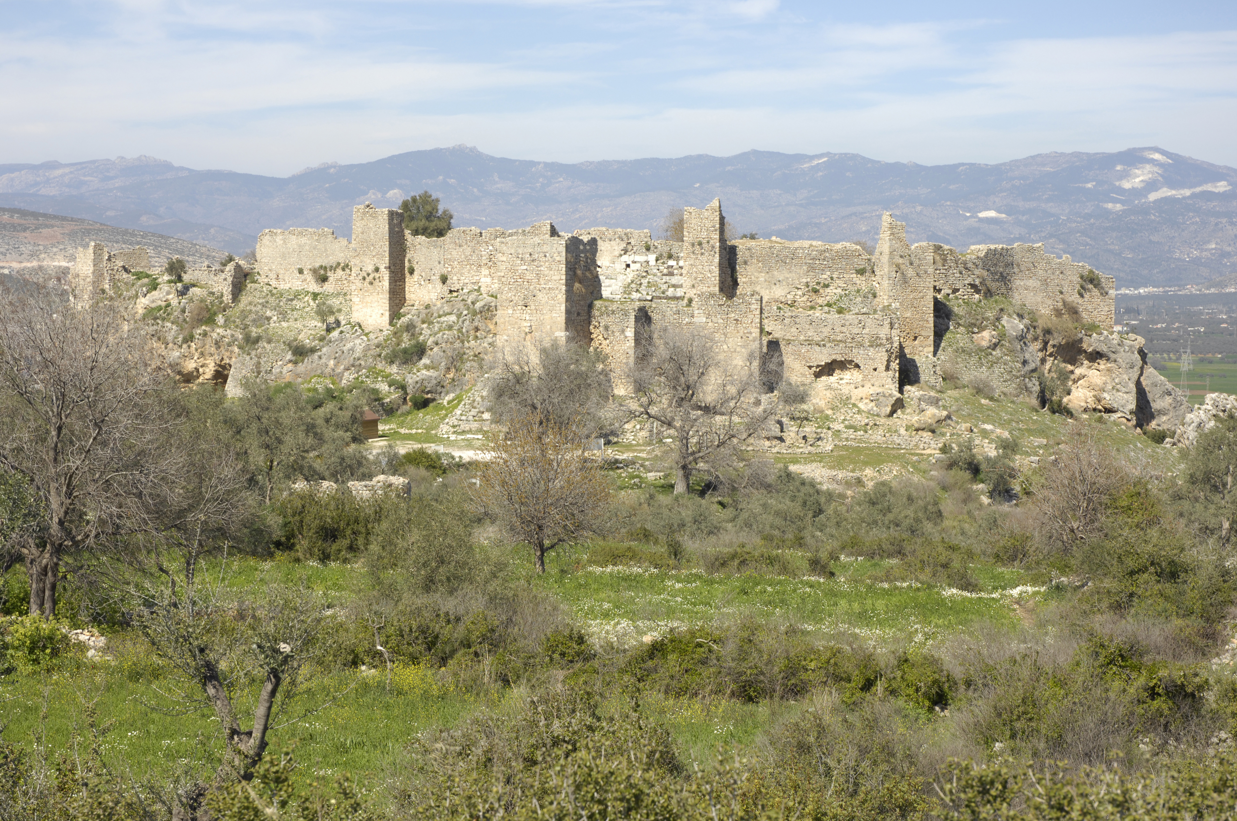 The castle at what may be the most impressive side.